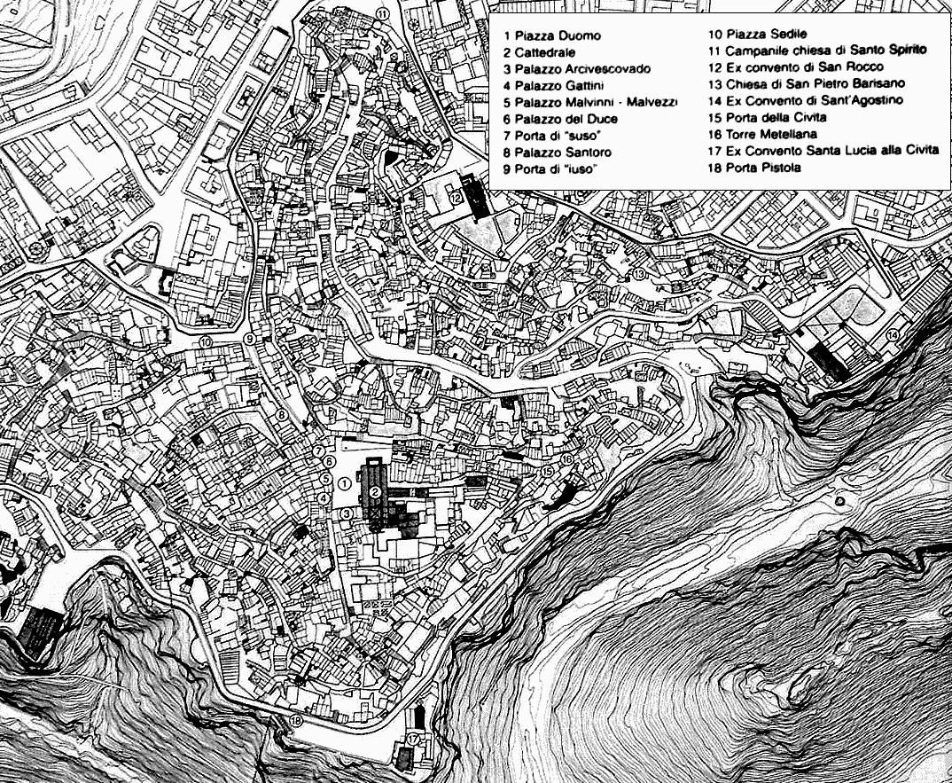 Map of Sassi, part of Matera (Italy).